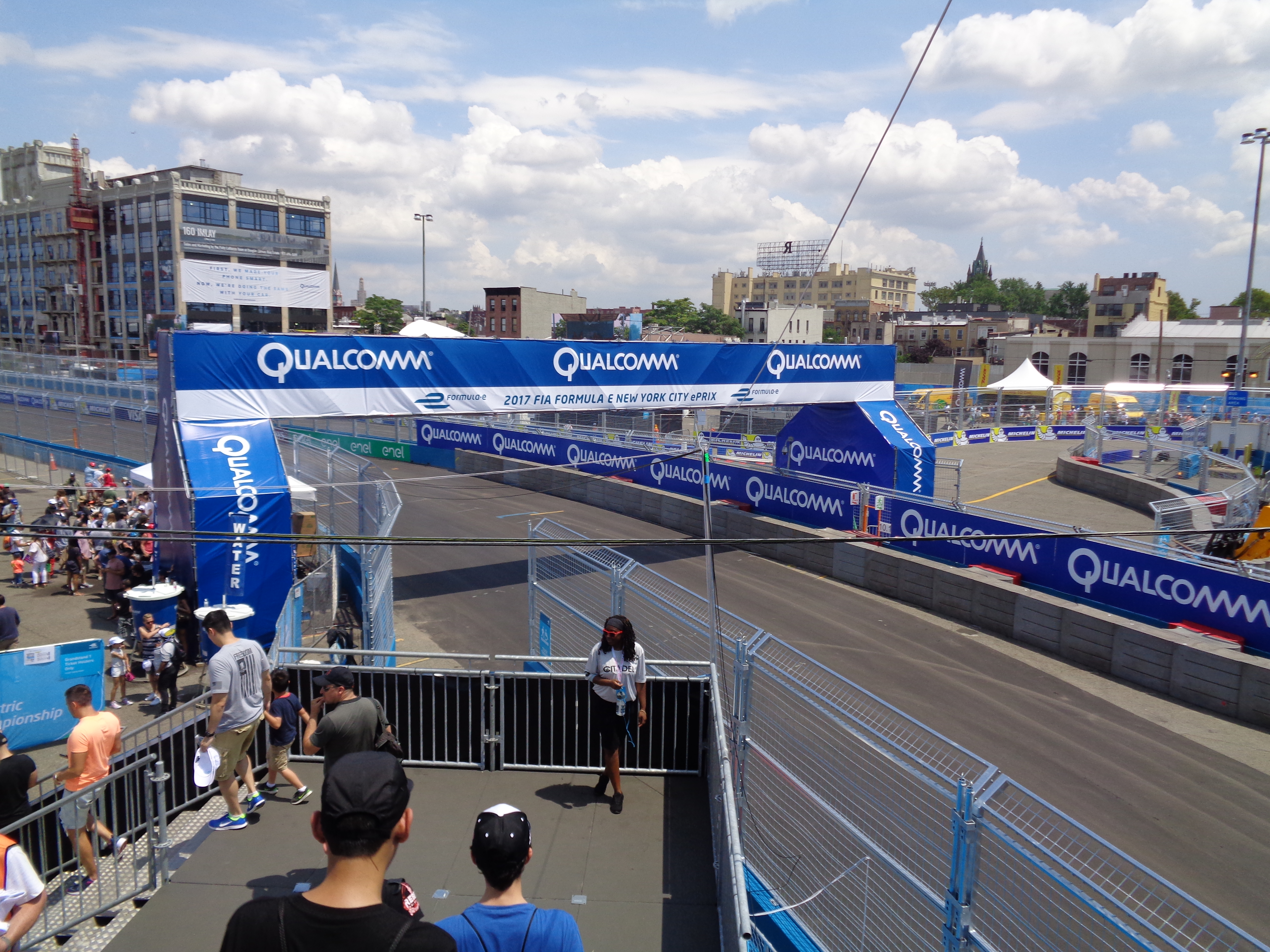 The first race of the 2017 New York City ePrix in Red Hook, Brooklyn, on Saturday, July 15, 2017.